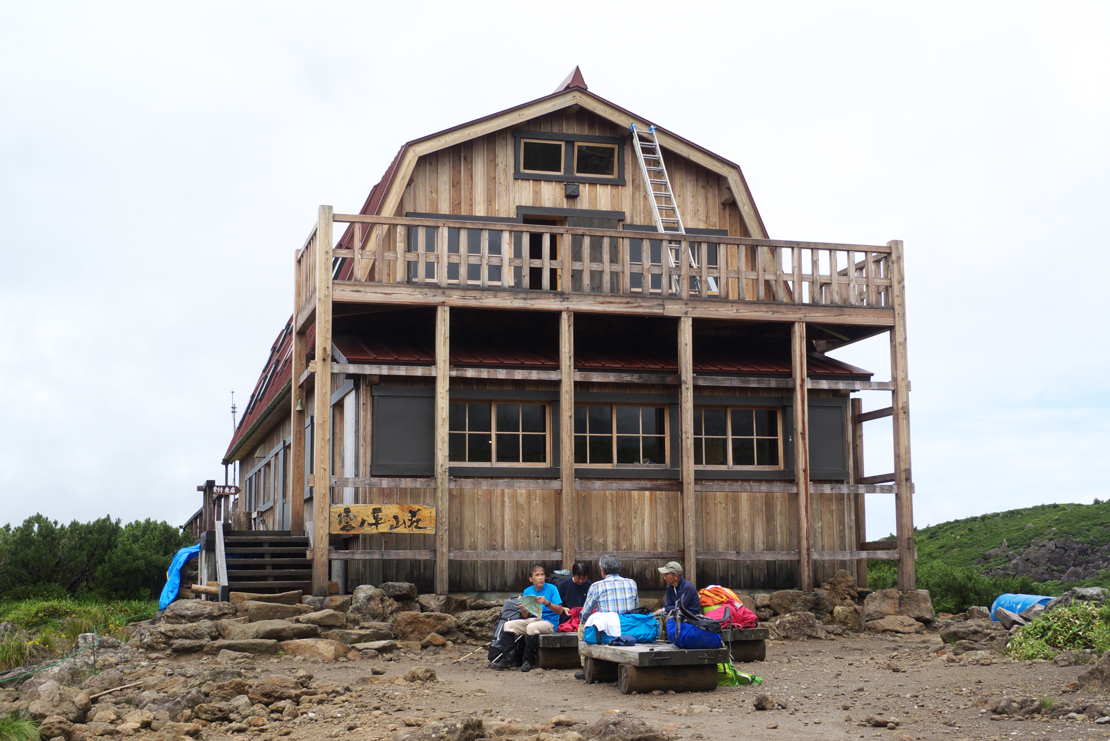 Kumonotaira Sanso ("Kumonotaira Mountain Hut") in the Hida Mountains, Japan